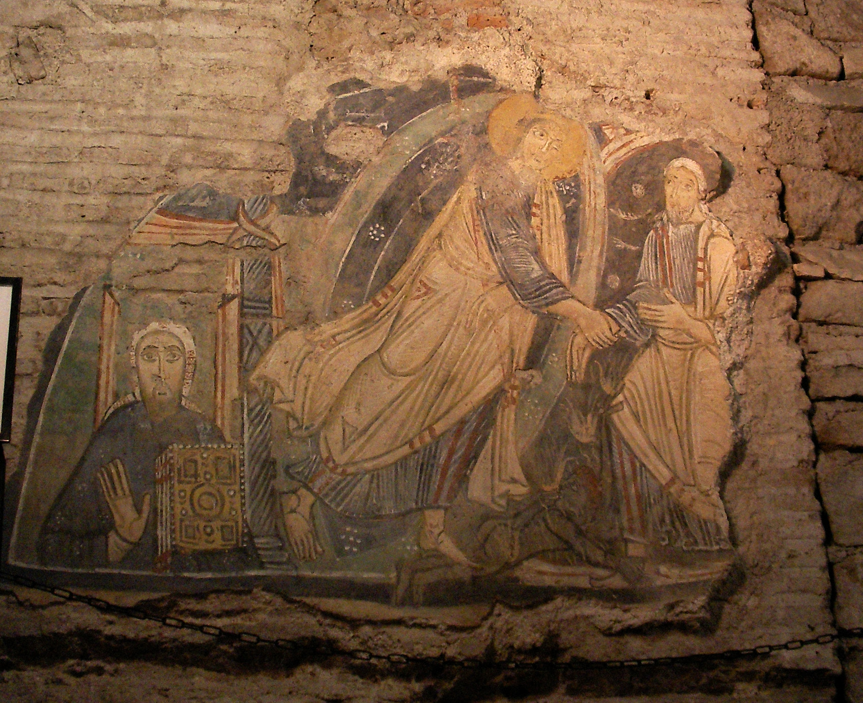 Early Christian Fresco depicting Christ in Purgatory, Lower Basilica, San Clemente, Rome, Italy